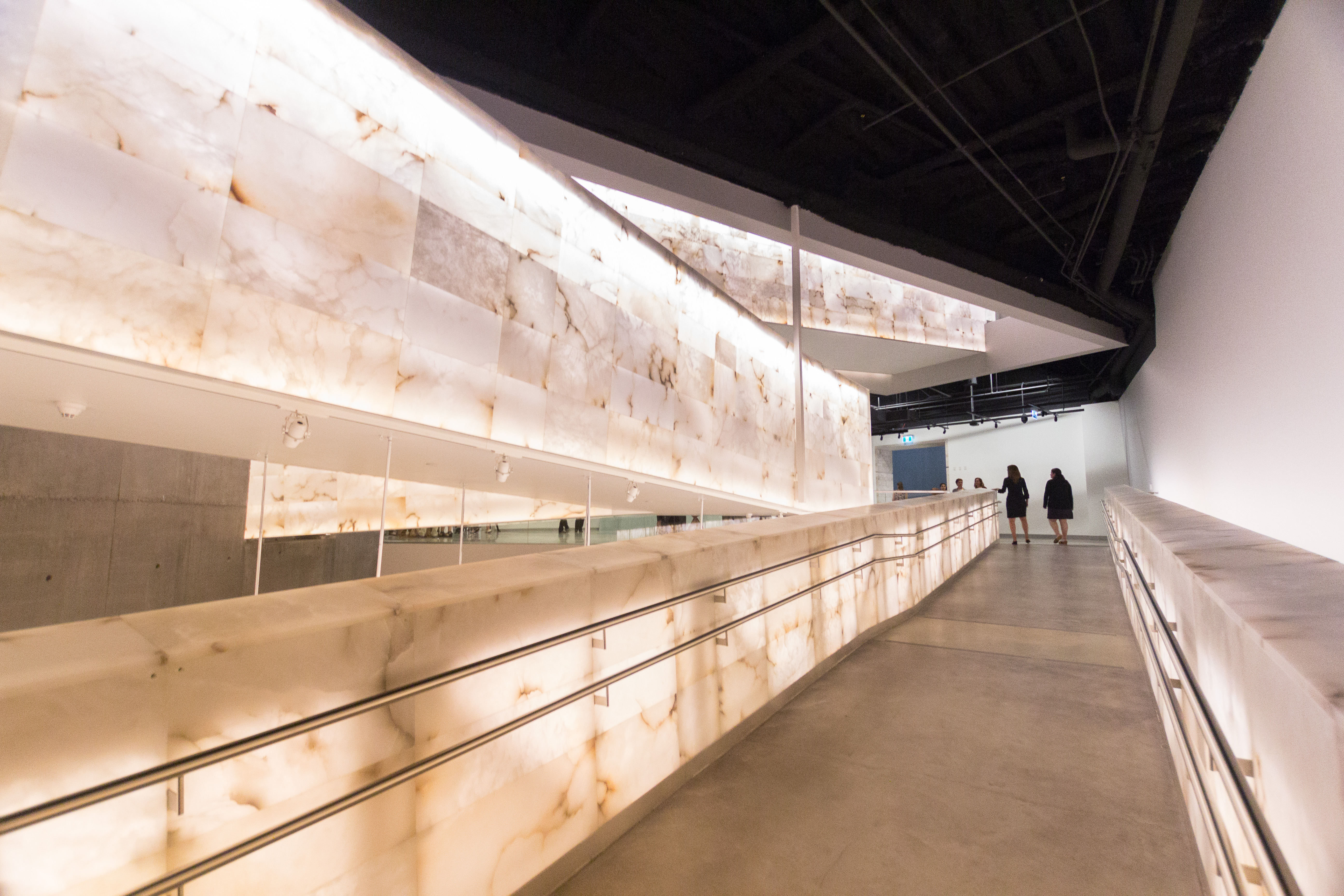 One of the most impressive buildings I've ever seen.